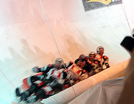 SEAT-Hackl-4er-Wok-Team im Zieleinlauf bei der Wok WM 2006 in Innsbruck (Georg Hackl's SEAT four-person-woksled team shortly before the goal in the Wok World Championship in Innsbruck 2006) Cropped from Image:Wok WM 2006 SEAT-Hackl-4er-Wok-Team im Zieleinlauf.jpg